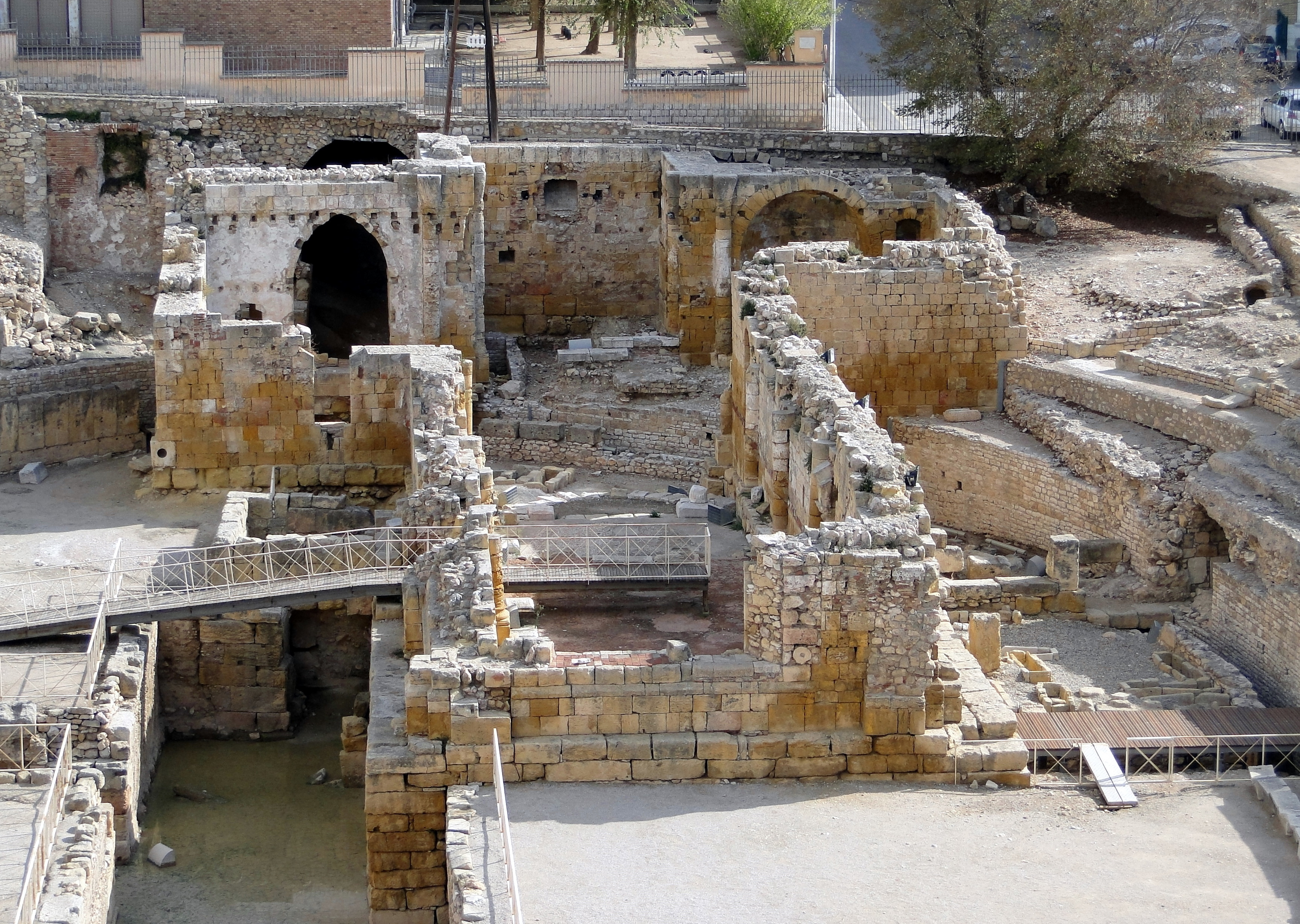 Ruins of Santa Maria del Miracle Church inside the Roman amphitheatre of Tarragona, Spain